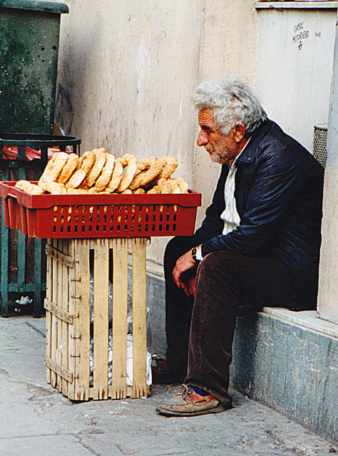 Old man with baked breads in Greece